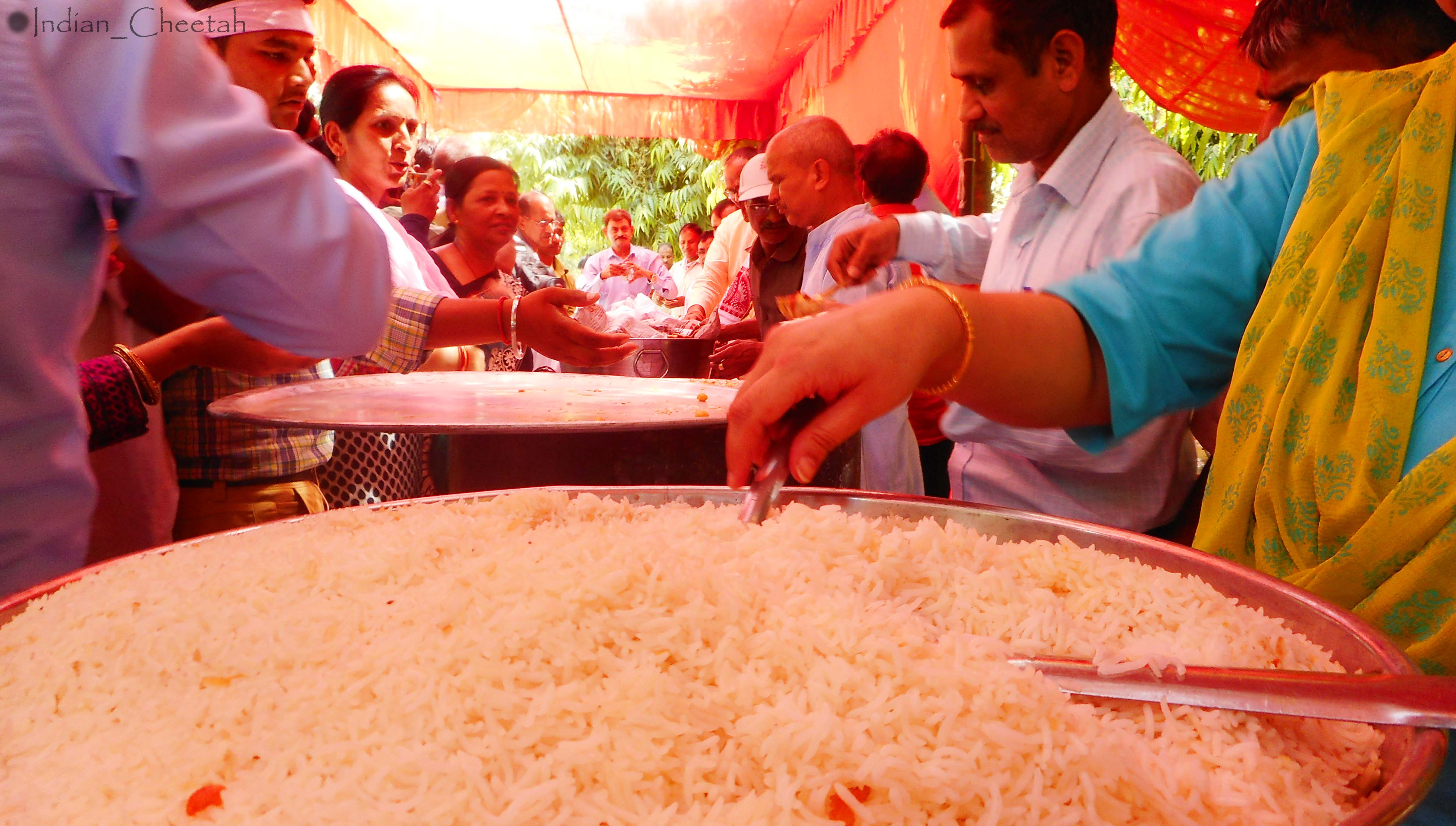 Bada Mangal is a ritual specific only and only to Lucknow.